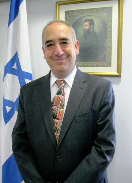 Photo of Arthur Lenk, October 2013